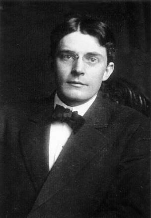 John Broadus Watson at Johns Hopkins c. 1908-1921